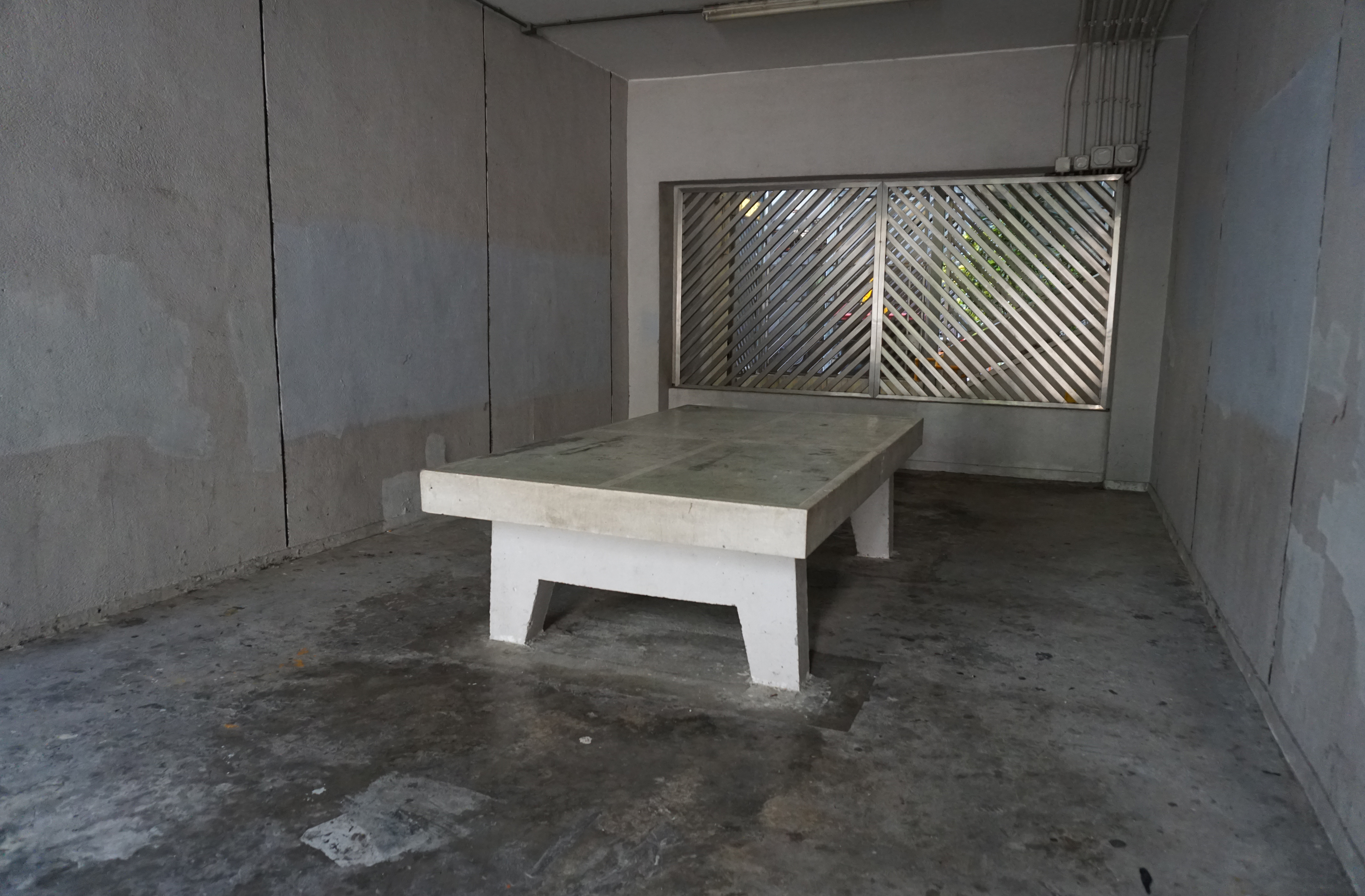 Yau Oi Estate in Tuen Mun, Hong Kong.